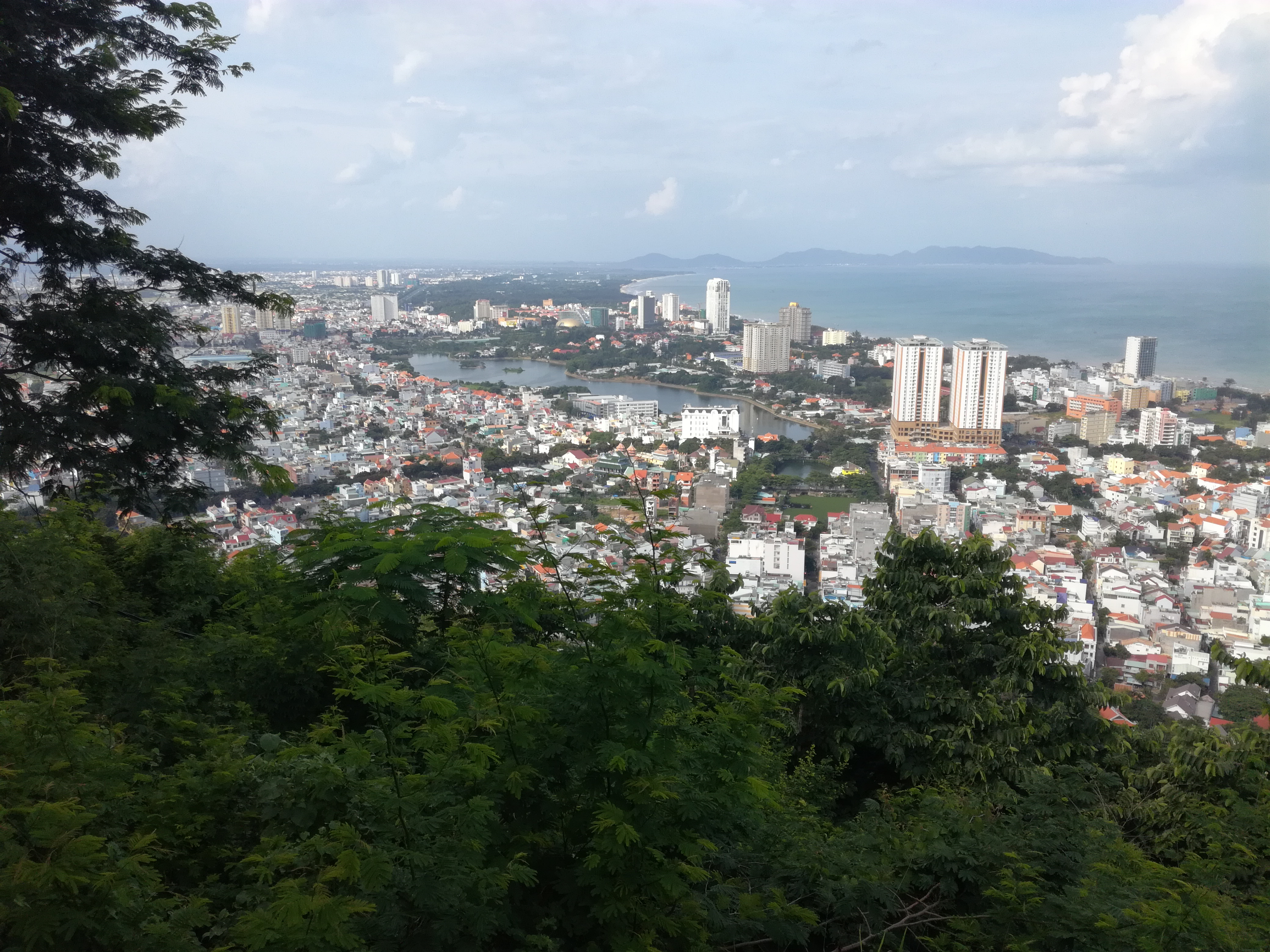 View of Vung Tau from Vung Tau lighthouse (August 3, 2018)